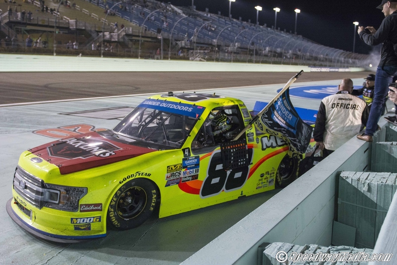 Crafton celebrates with the crew of the No. 88 ThorSport entry after winning the 2019 championship.